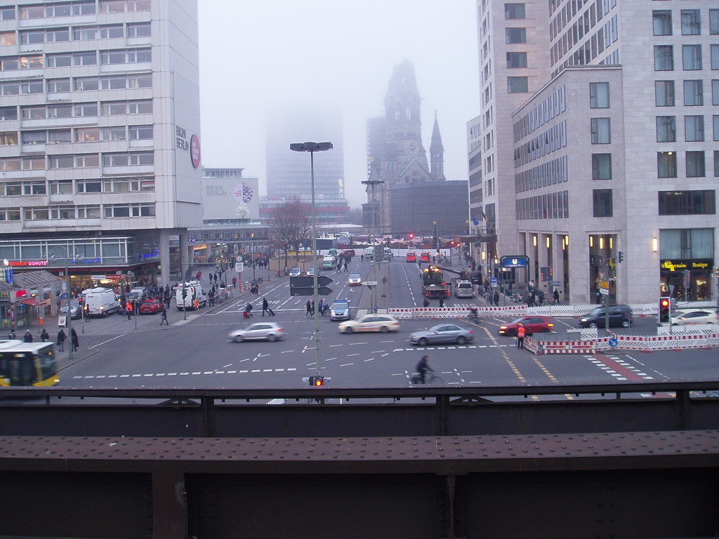 Picture taken from the elevated Zoo train station towards the Christmas market the day after the attack. It shows the right lane of Hardenbergstrasse the truck took to pass between the pedestrian lights on the corner.